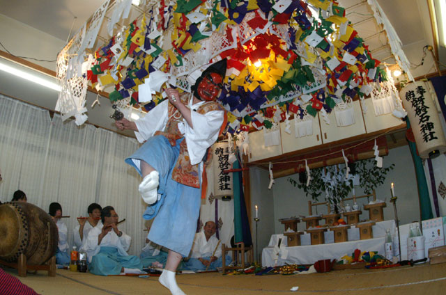 Umedukagura